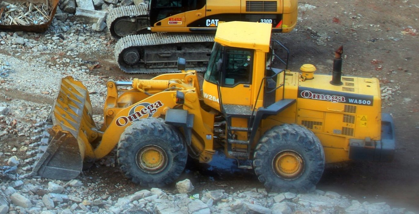 Komatsu WA500 wheel loader